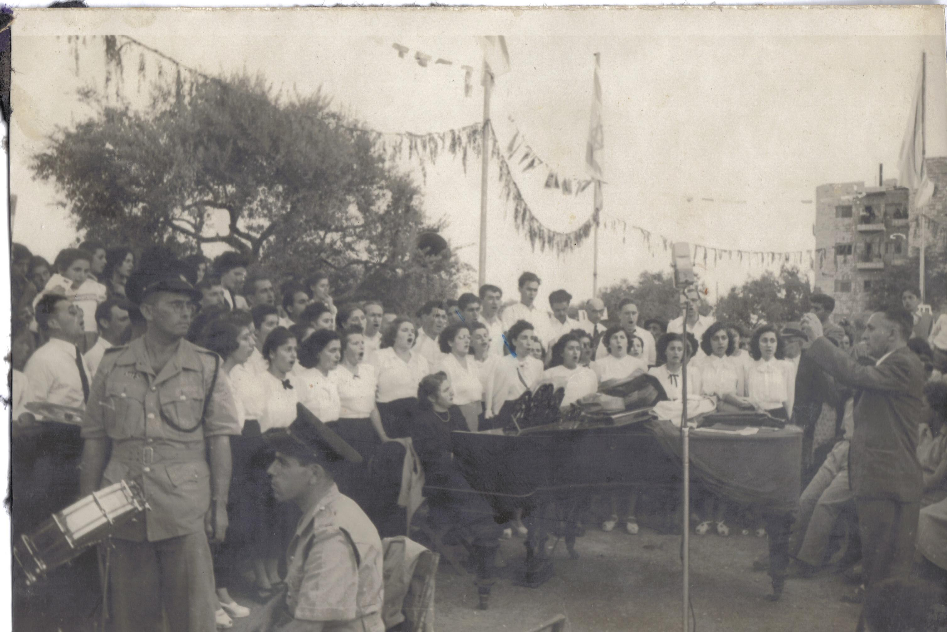 Art of Israel